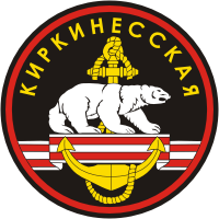 61st kirkenes marine brigade patch